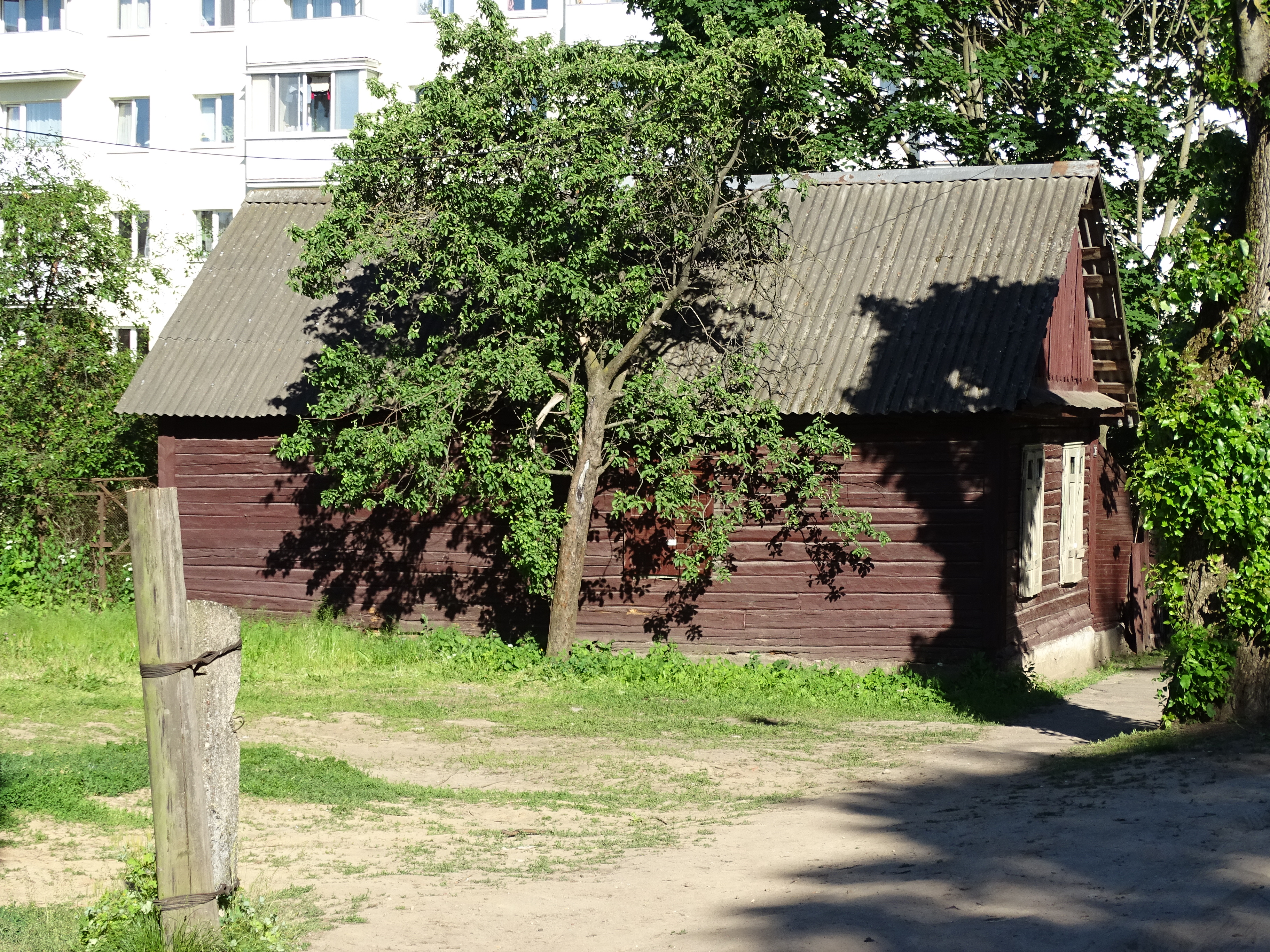 Sole Surviving House from Former Jewish Ghetto - Adjacent to Holocaust Museum & Research Workshop - Minsk - Belarus